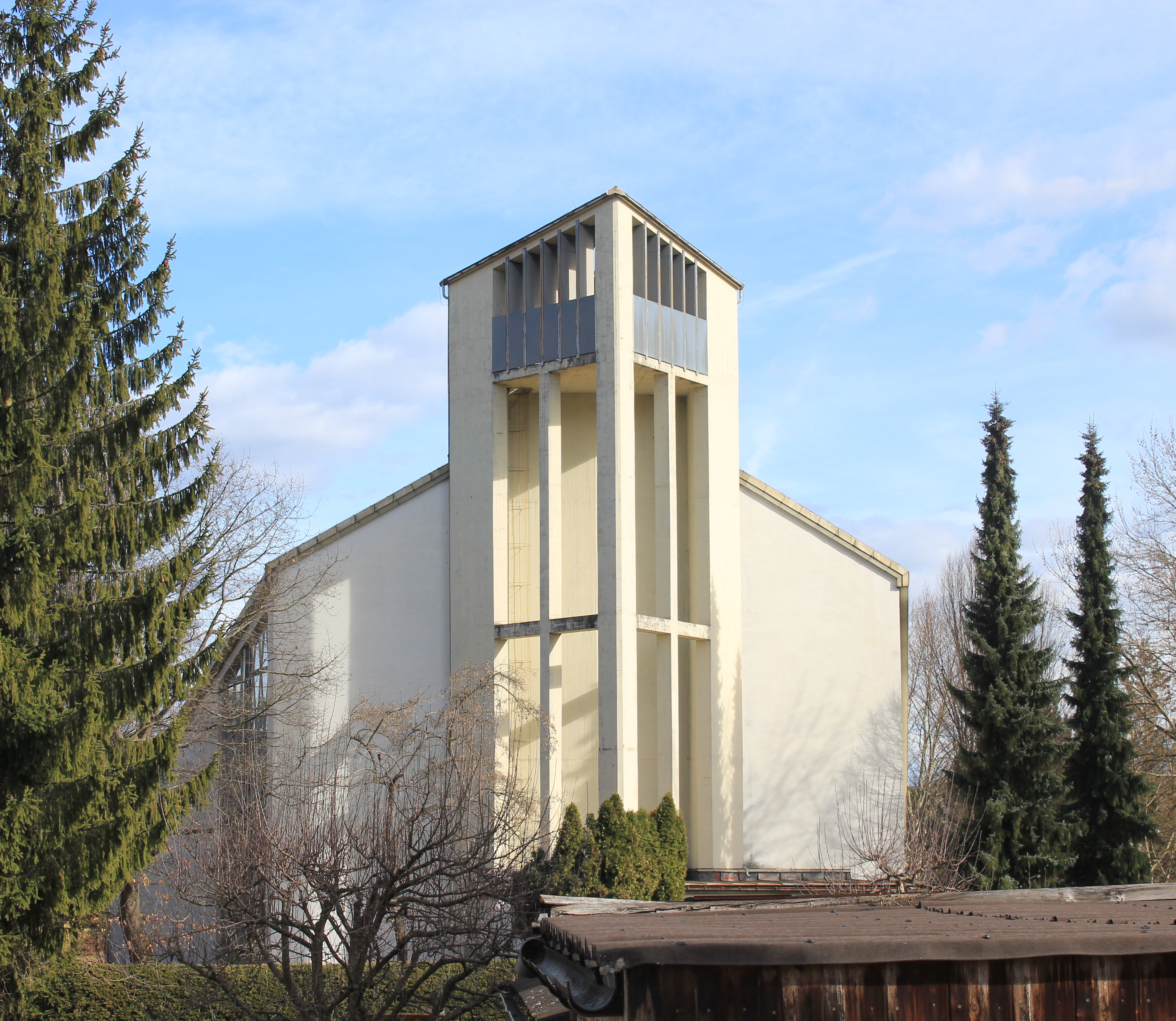 Church of Völkendorf in Villach.